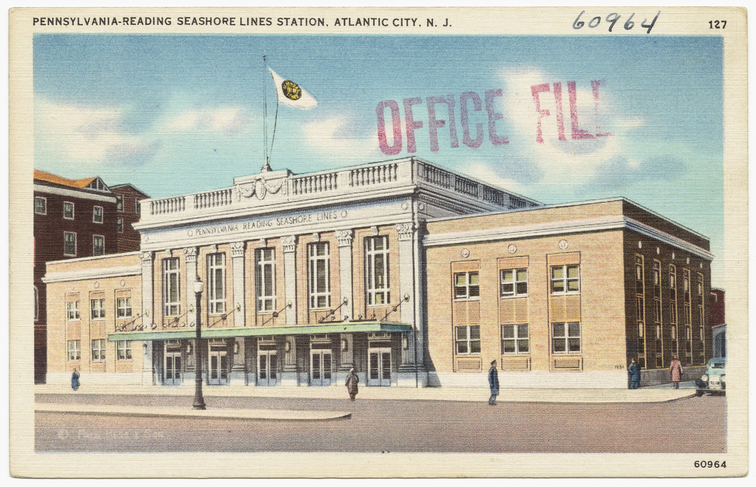 File name: 06_10_010708 Title: Pennsylvania-Reading Seashore Lines Station, Atlantic City, N. J. Date issued: 1930 - 1945 (approximate) Physical description: 1 print (postcard) : linen texture, color ; 3 1/2 x 5 1/2 in. Genre: Postcards Subject: Railroad stations Notes: Title from item. Collection: The Tichnor Brothers Collection Location: Boston Public Library, Print Department Rights: No known restrictions